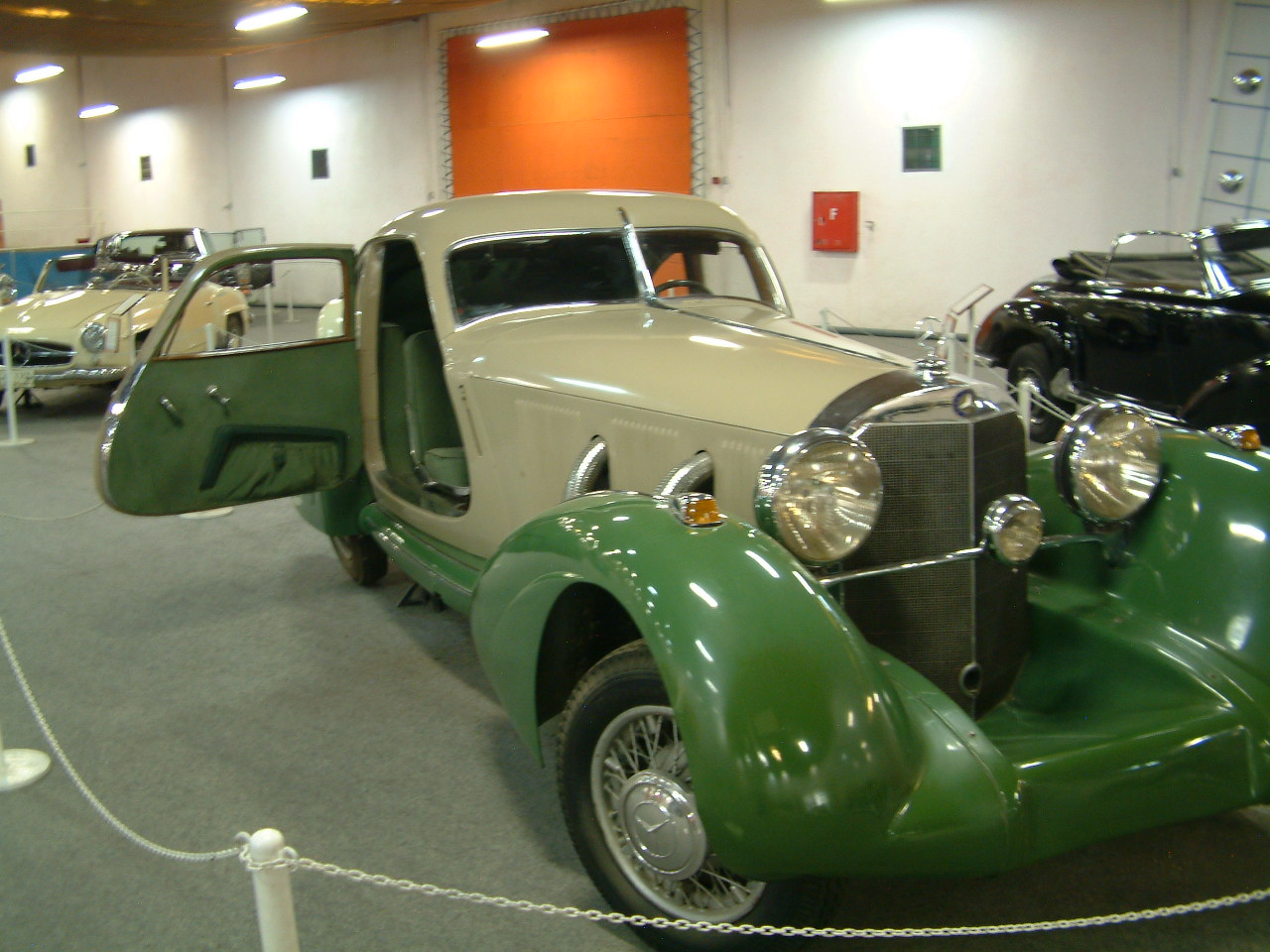 Taken by Aytakin